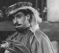 Jose Comellas- actor